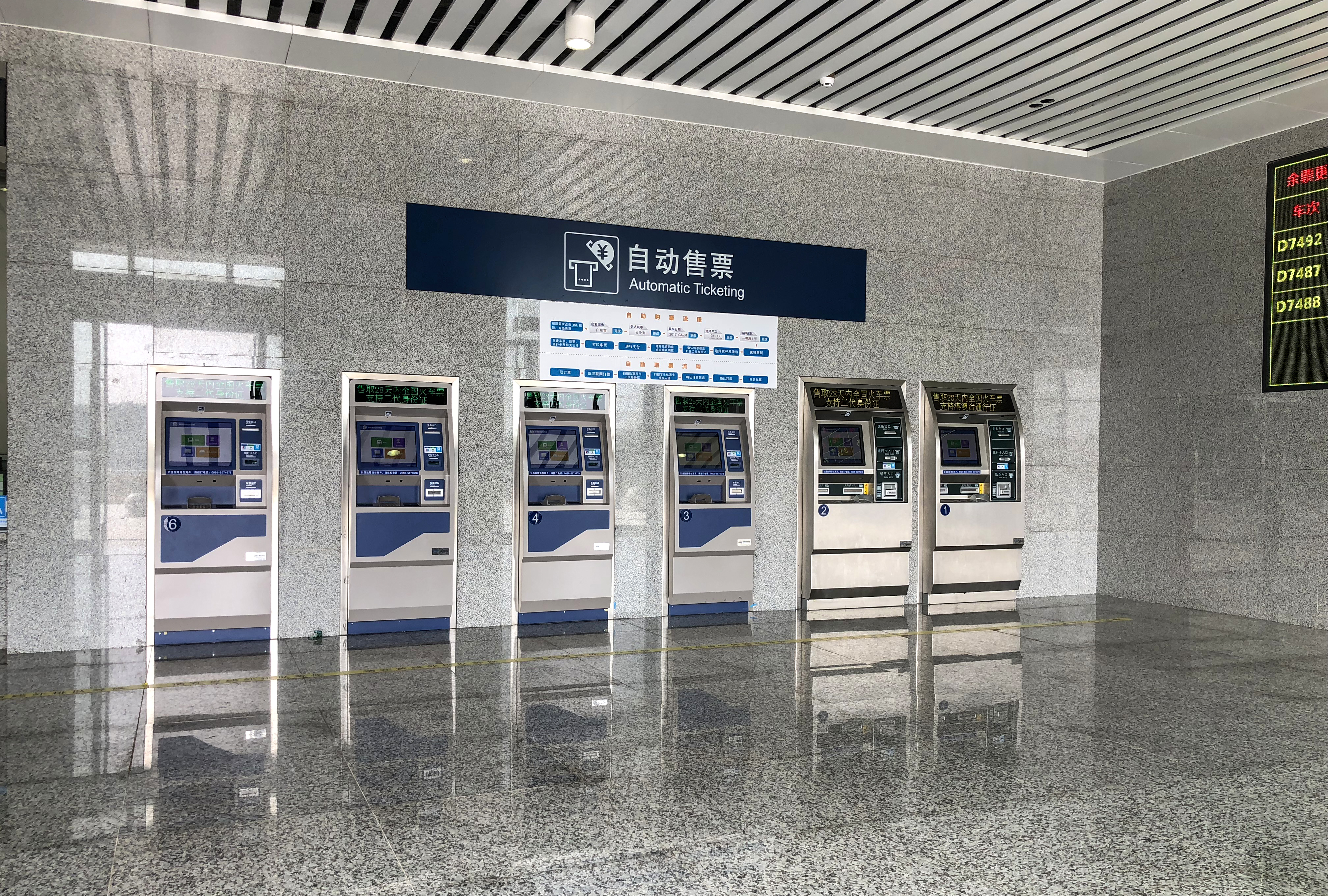 Six TVMs in two patterns.